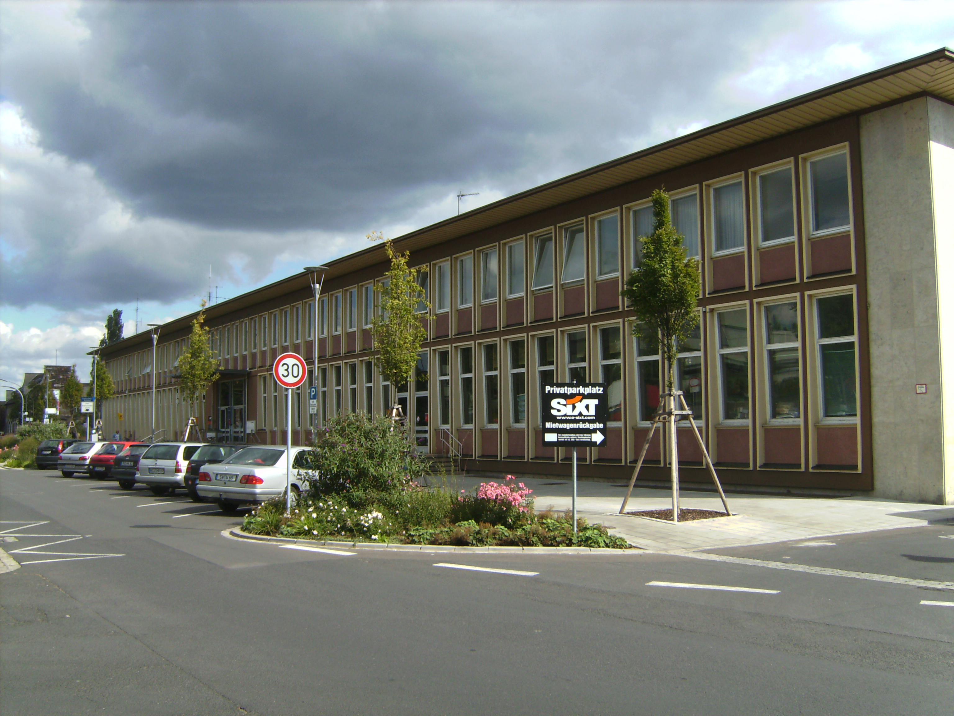 The entrance building of Schweinfurt main station